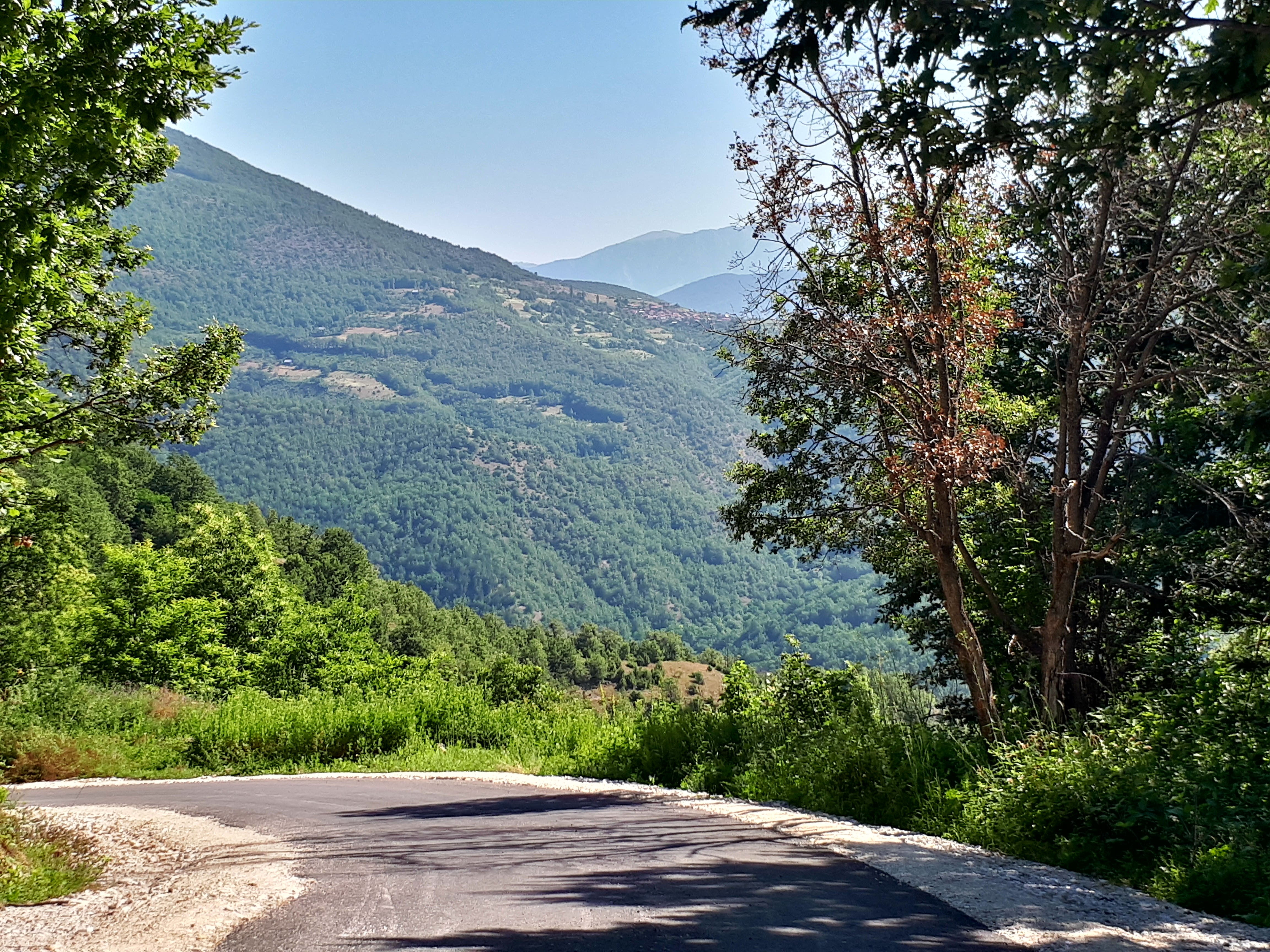 View of the village Brest